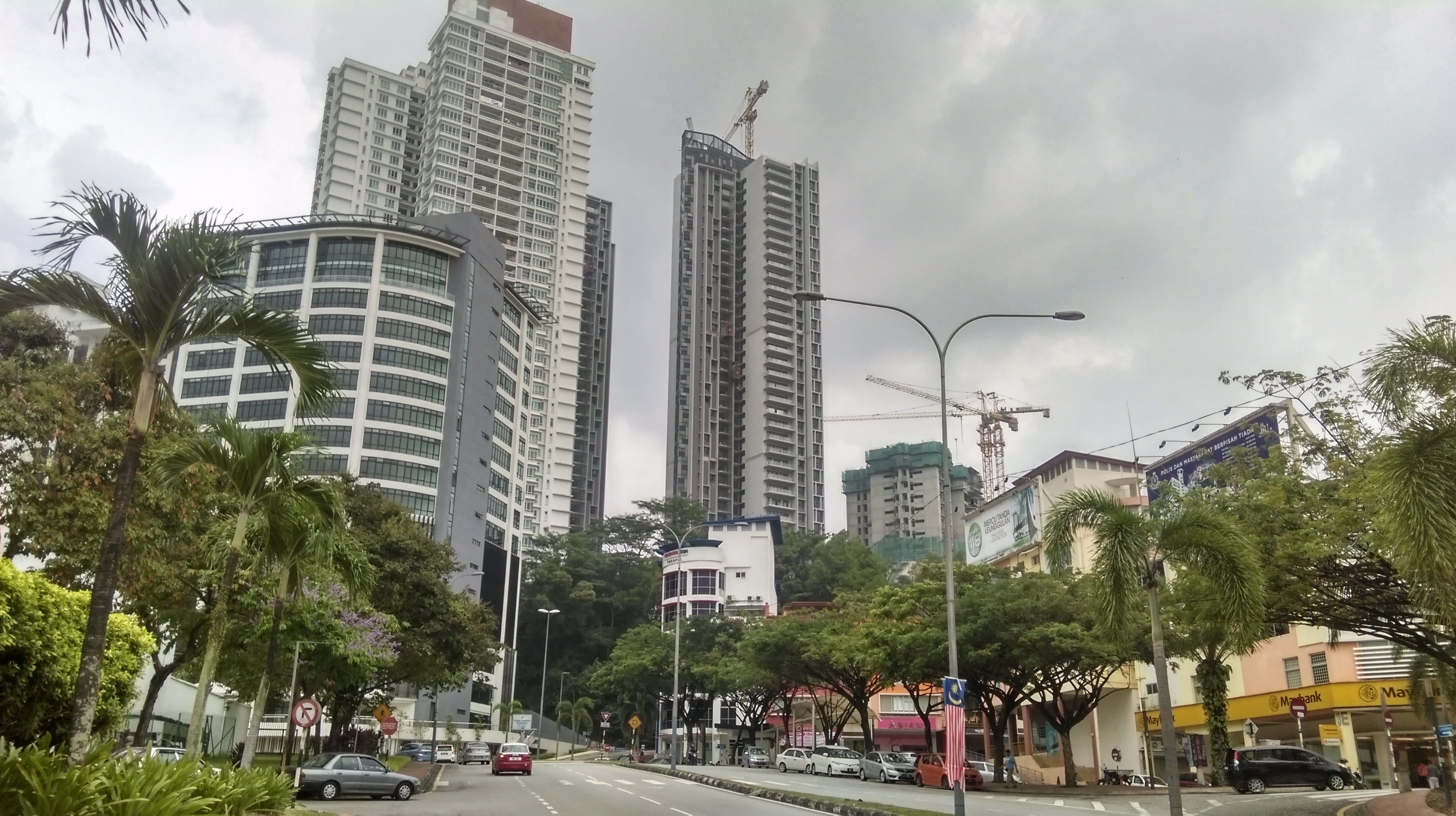 Wangsa Maju, a suburb area in Kuala Lumpur Malaysia